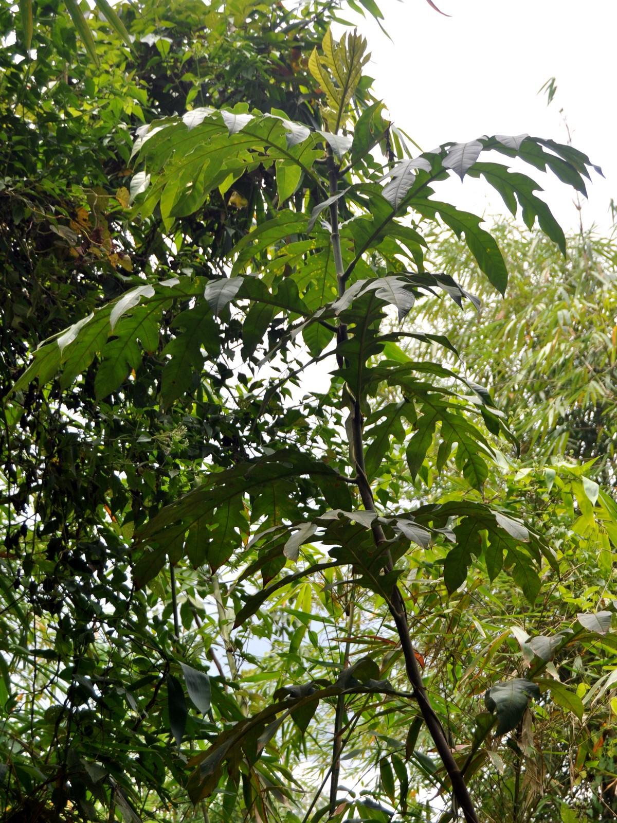 Torap (Artocarpus elasticus) sapling (young tree), ca. 3m high; shows its deeply cut leaves. From Ketapang, West Kalimantan, Indonesia.